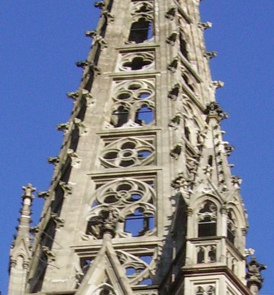 Description: Gedächtniskirche (Memorial Church) in Speyer, Germany Source: own photography Date: November 2005 Author: --Immanuel Giel 12:51, 7 November 2005 (UTC) Other versions: none